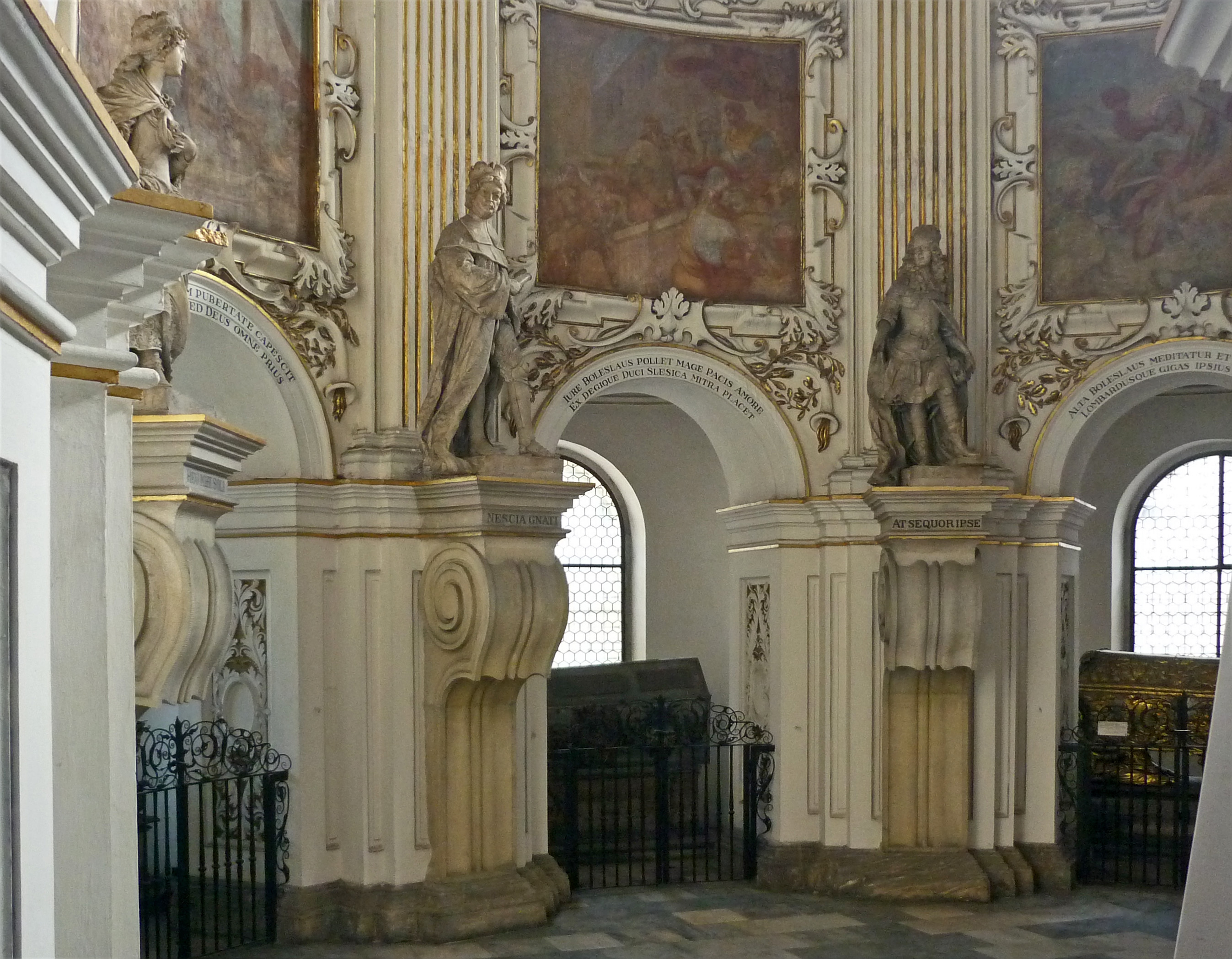 The Piast Mausoleum in Legnica Native nameMonumentum PiasteumLocationLegnicaCoordinates51° 12′ 33″ N, 16° 09′ 32″ E Established1679Authority control : Q11771813